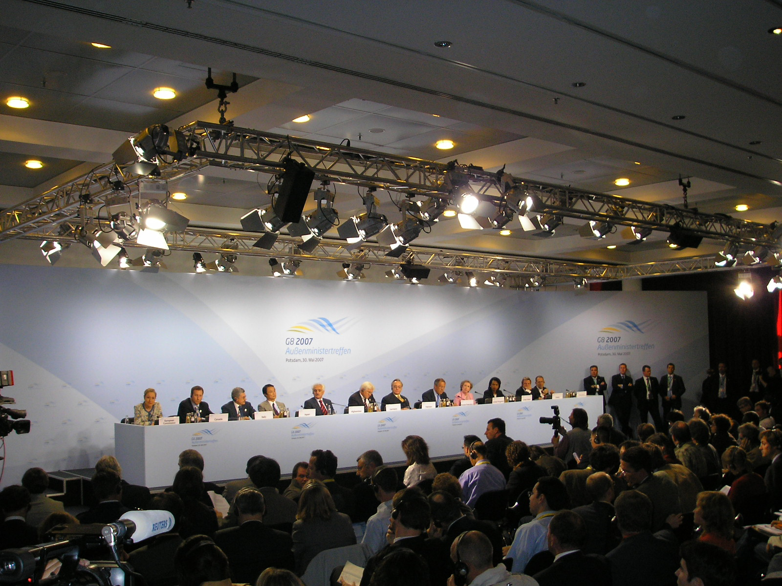 G8 foreign ministers press conference at the Hotel Dorint in Potsdam.